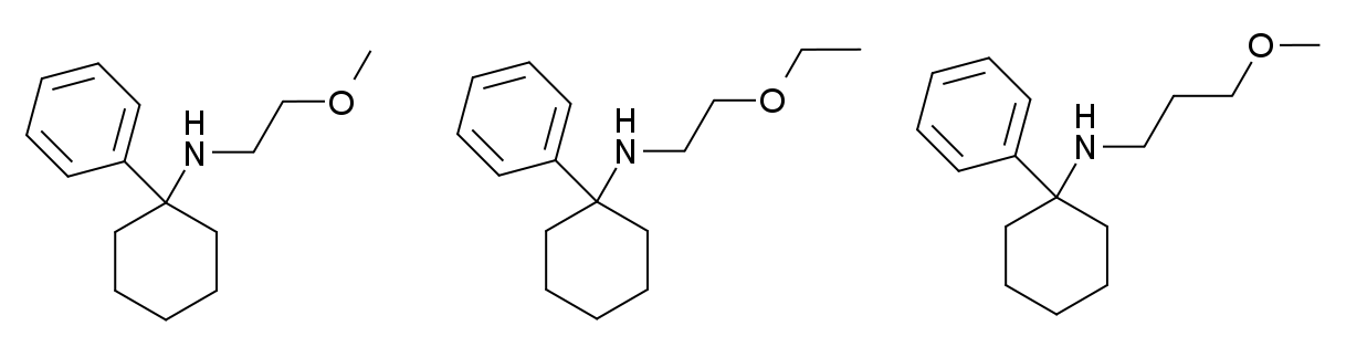 Structures of PCMEA, PCEEA and PCMPA